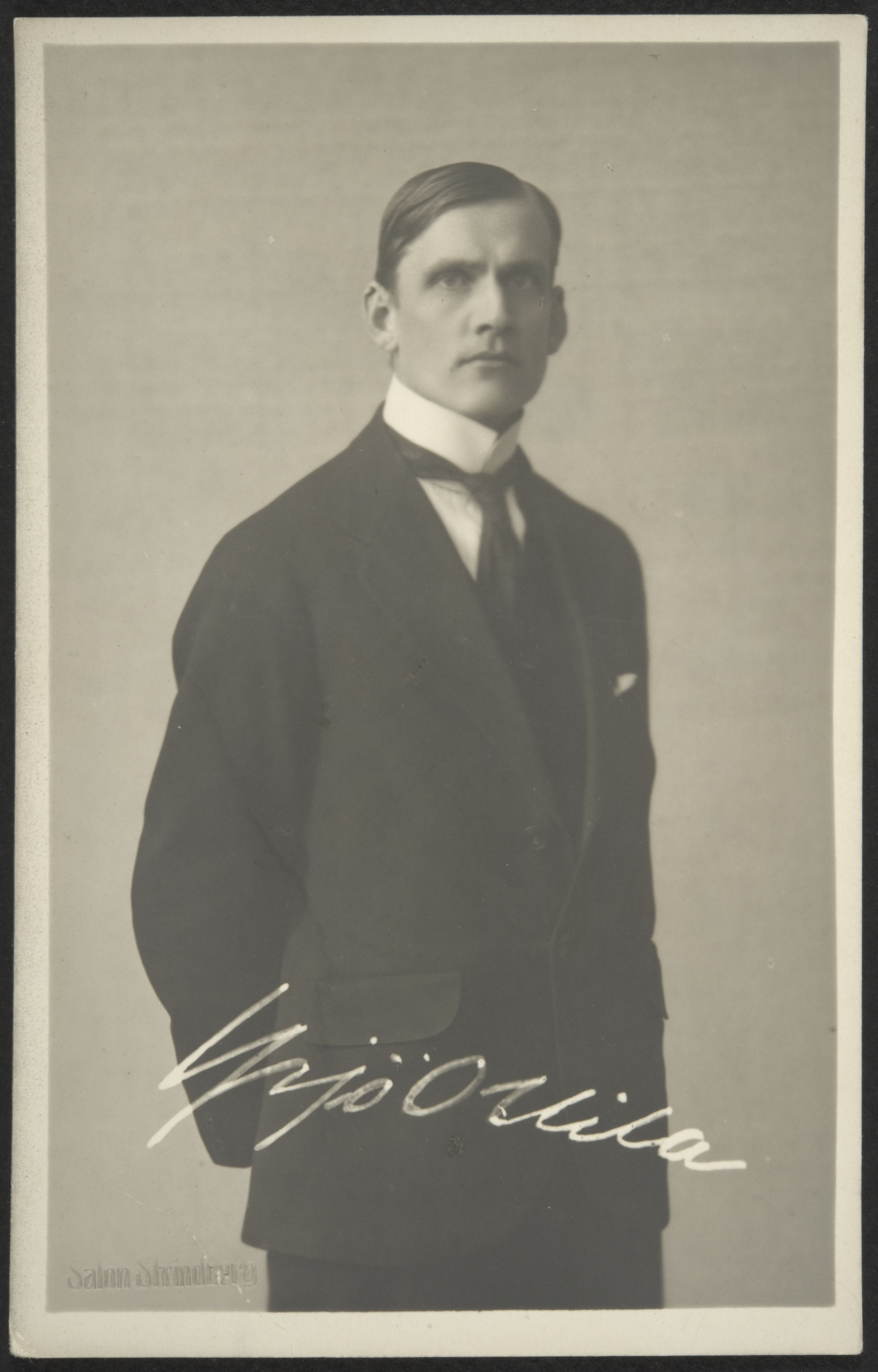 Photograph of the Finnish painter Yrjö Ollila (1887–1932).